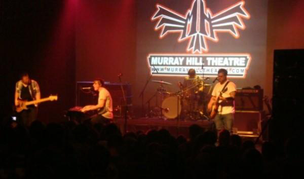 Between the Trees live at the Murray Hill Theatre